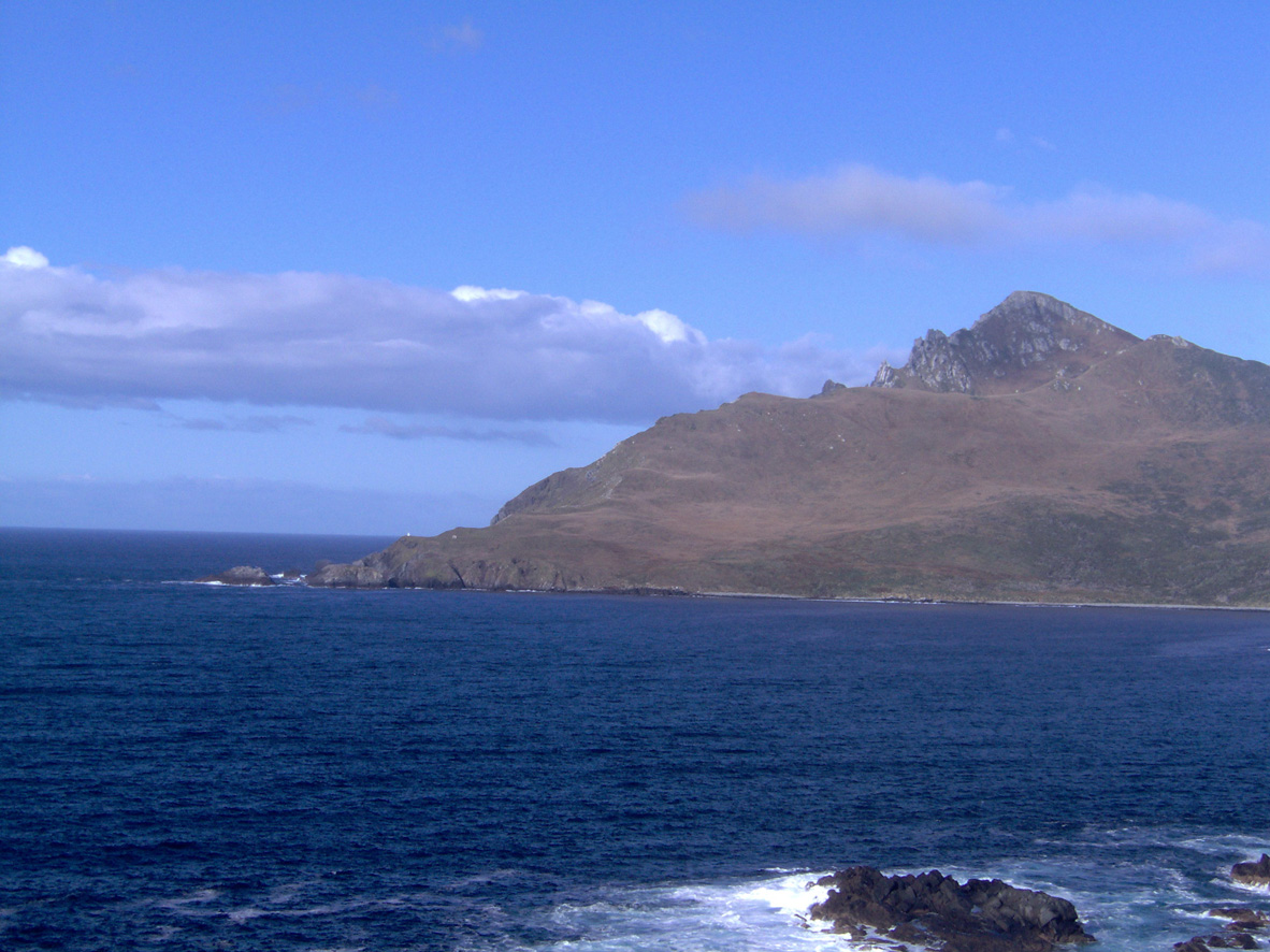 Cape Horn seen from the Chilean Station and Memorial location on 05/12/2006 at 08:00 AM. The small lighthouse can be seen as a white spot close to the seaside